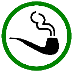 A sign showing that pipe smoking is allowed (and maybe even encouraged)